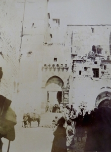 Mosque over Cave of Machpelah, Hebron, 1891. From original silver print in book titled: "A Month in Palestine and Syria, April 1891," (author unknown). Original 19th century book in the possession of Kimberly Blaker, New Boston Fine and Rare Books.